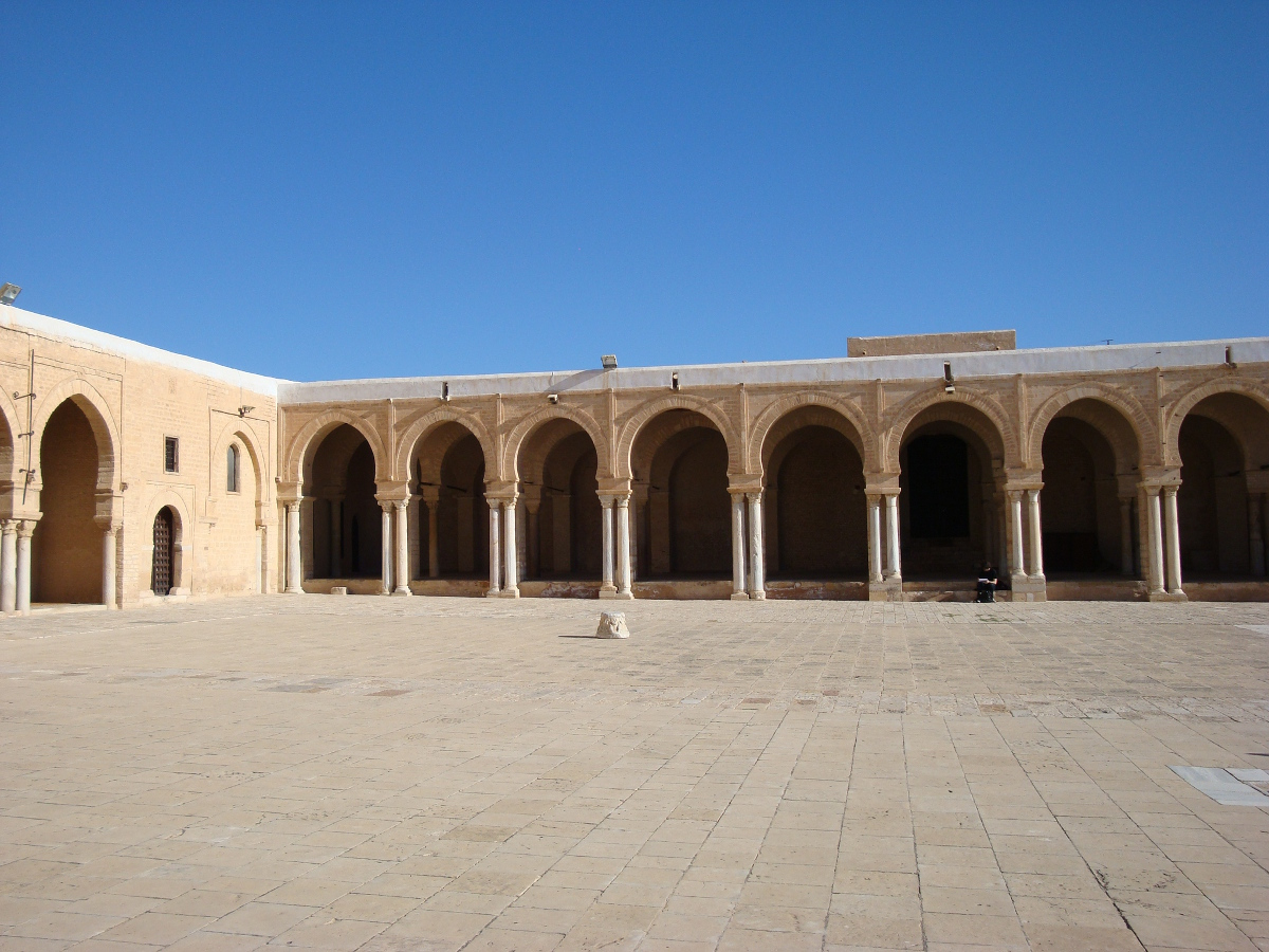 Eastern portico of the courtyard of the Great Mosque of Kairouan, in Tunisia.